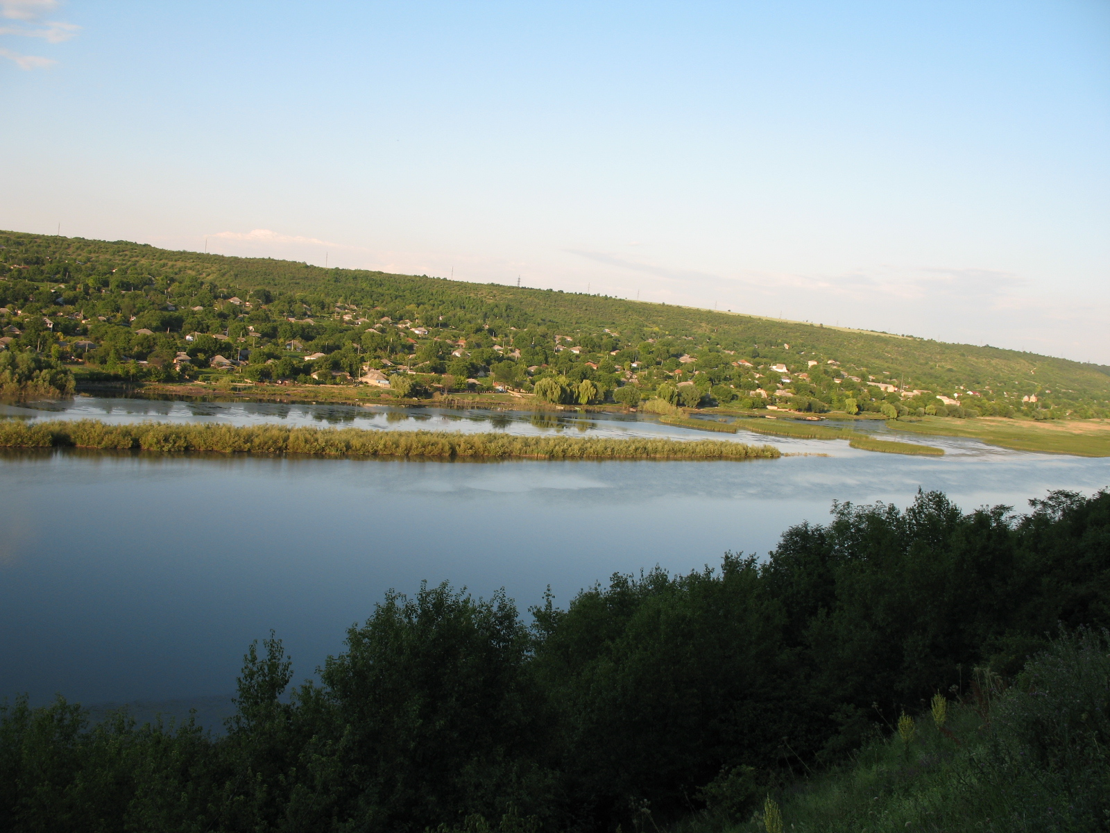 Dniester river near Popenki